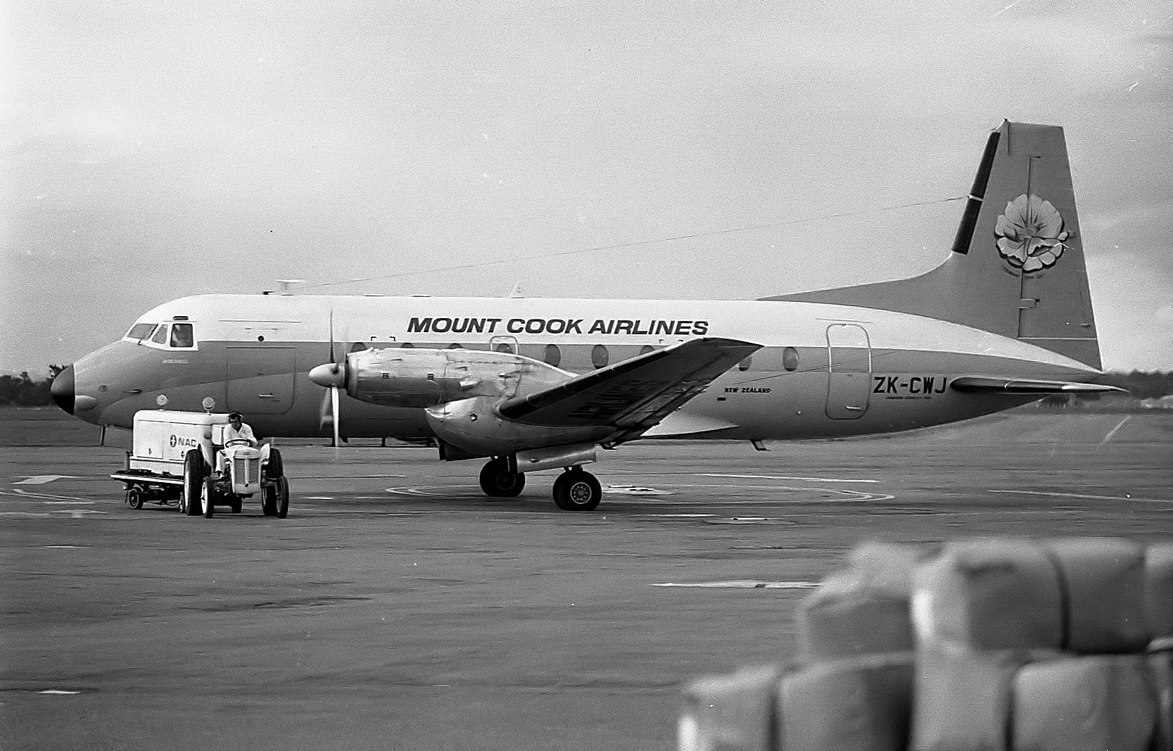 HS 748, Palmerston North, New Zealand, 1973